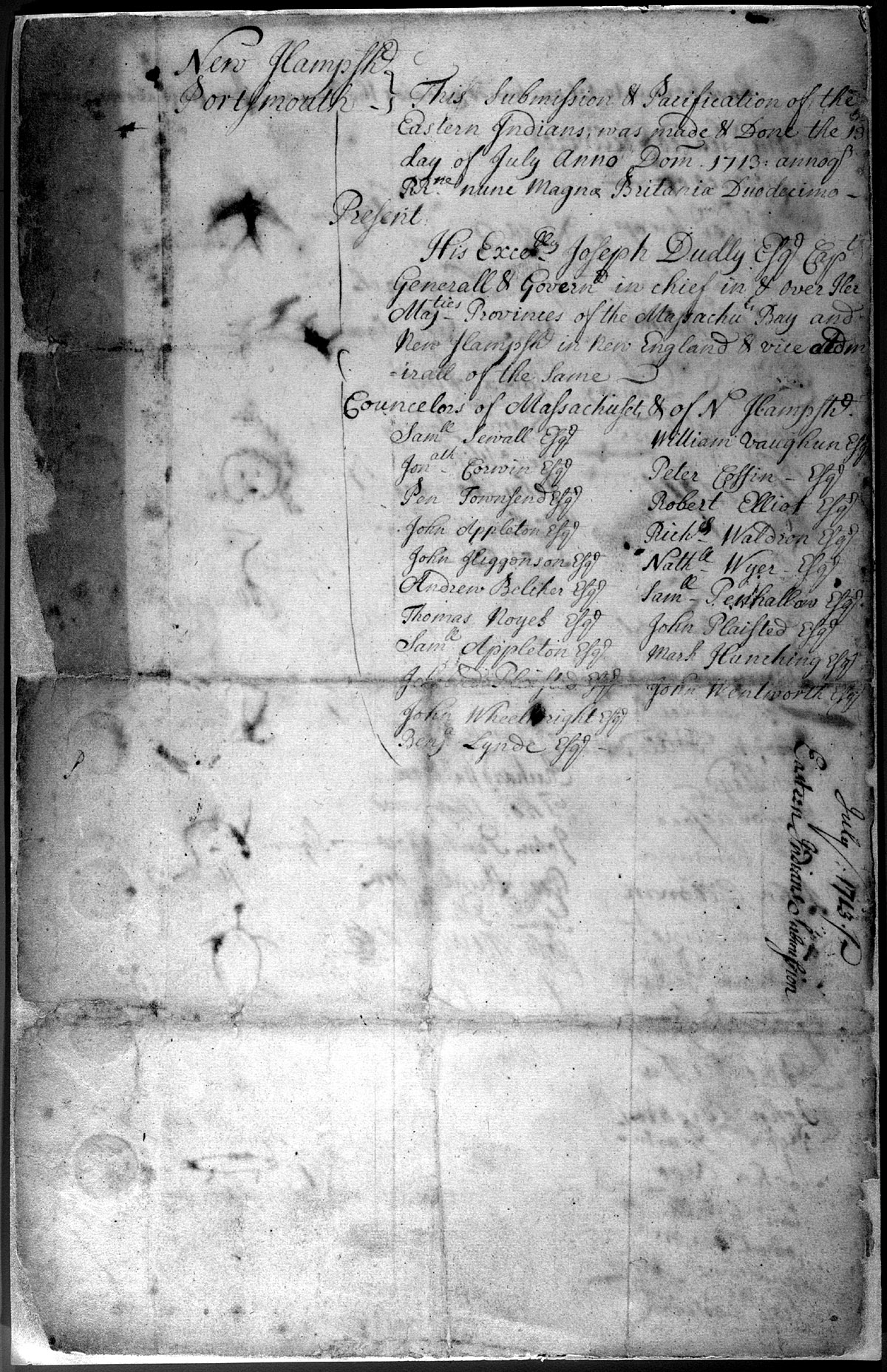 The Treaty of Portsmouth (1713), page 4.